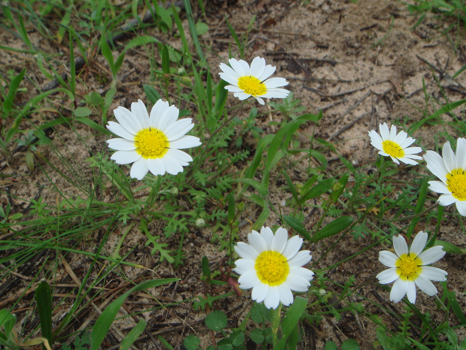 (Hymenostemma pseudanthemis) Spain, Cádiz